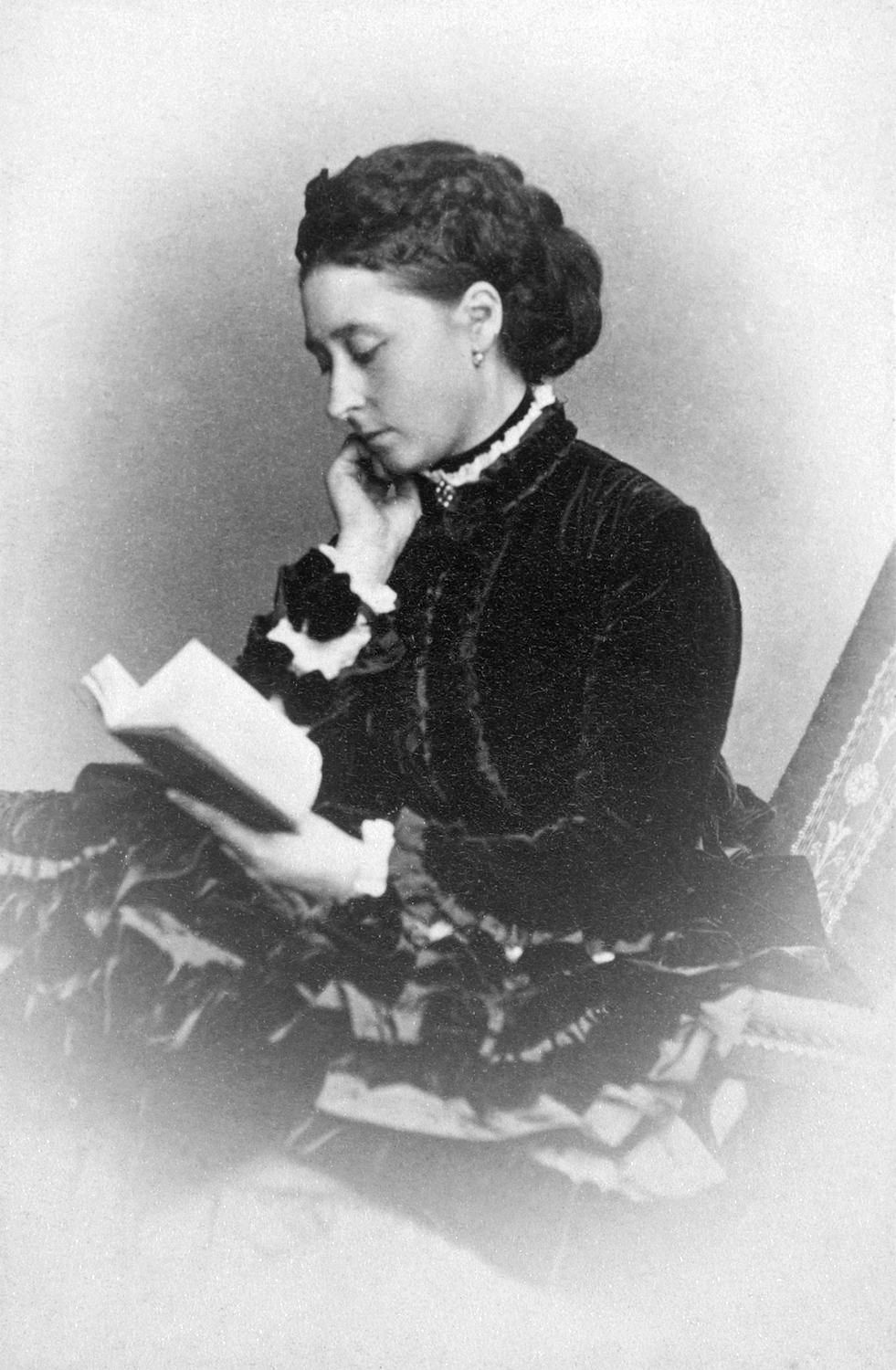 Alice, Princess Louis of Hesse and by Rhine